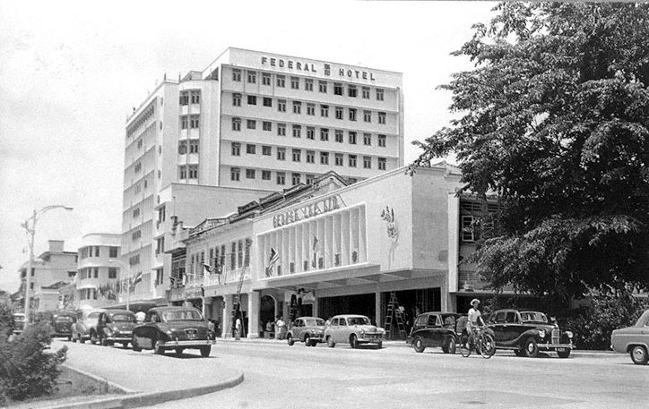 Lower Section of Bukit Bintang Road circa 1960's. It features The Federal Hotel which was built in 1957.